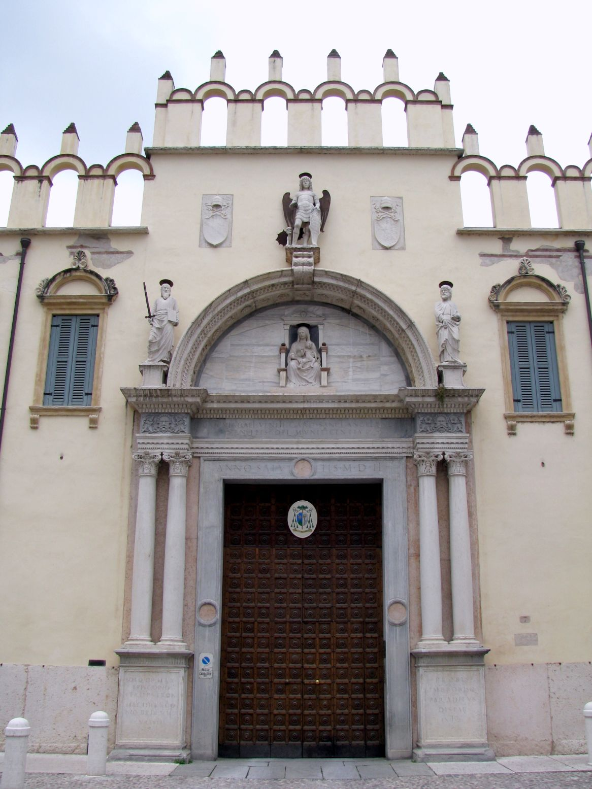 Palazzo Vescovile (Verona)